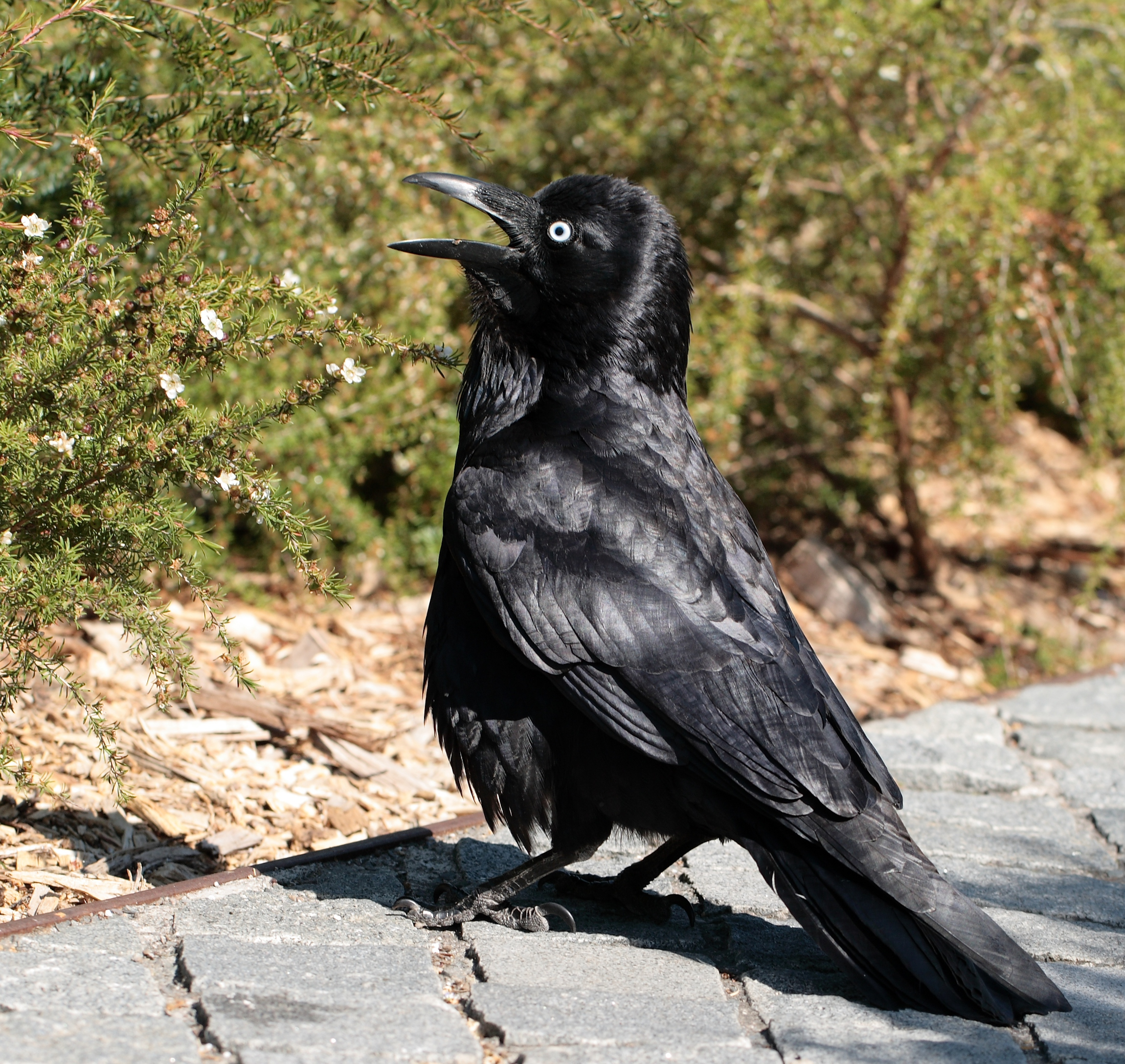 An Australian Raven (Corvus coronoides) at Sydney University.